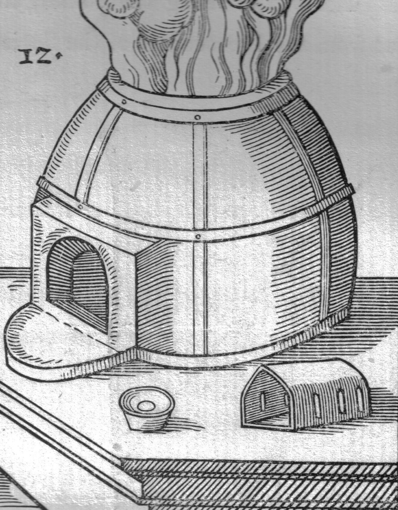 A mint furnace for melting down metal for coinage